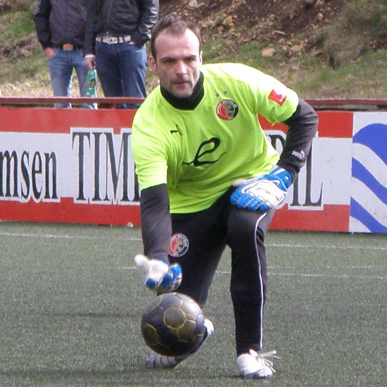 Marcin Dawid is a Polish football player, a goalkeeper. In 2010 he plays for HB Tórshavn in Vodafonedeildin. He first came to the Faroe Islands to play football for Sumba in 1993. Sumba later merged with the former VB Vágur. The football club is now called FC Suðuroy. This photo was taken at the football match between HB Tórshavn and FC Suðuroy on Eiðinum Stadium in Vágur on 29 May 2010. HB Tórshavn won the match. HB Tórshavn won the Faroe Islands Premier League (Vodafonedeildin) in 2009, Marcin Dawid has been goalkeeper for HB Tórshavn since 2007. Føroyskt: Marcin Dawid er pólskur fótbóltsleikari, málmaður. Hann kom til Føroya at spæla fótbólt í 1993, tá hann spældi fyri Sumba. Sumbiar Ítróttarfelag legið seinni saman við VB og í 2010 skifti felagið navn til FC Suðuroy. Marcin Dawid hevur eisini spælt við VB í 2006-07. Síðan 2007 hevur hann spælt við HB. Í 2009 vann hann meistaraheitið við HB. Í 2005 spældi hann við GÍ og vann Løgmanssteypið. Henda myndin varð tikin tá HB spældi móti FC Suðuroy 29. mai 2010 vesturi á Eiðinum í Vági.